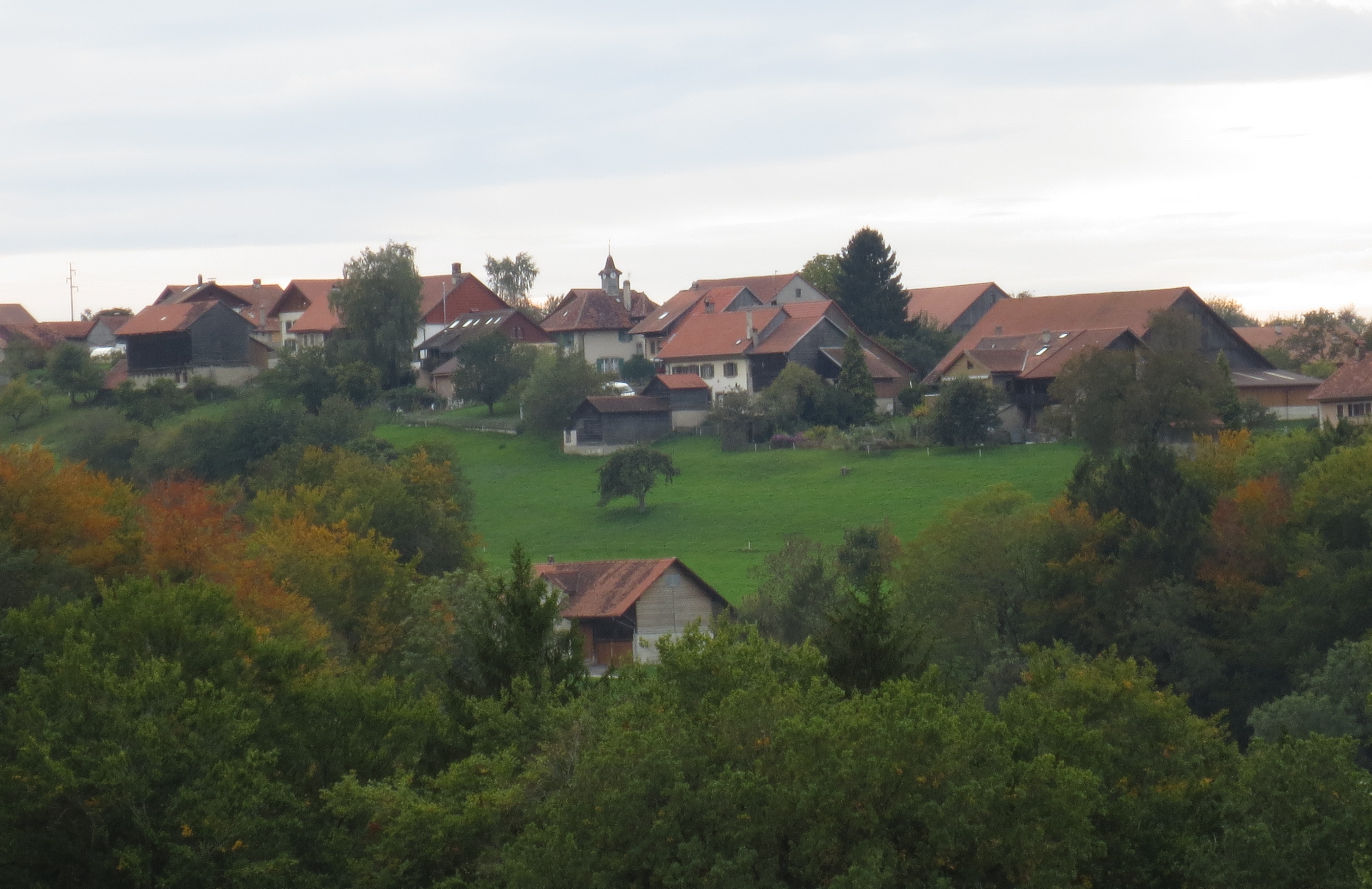 Sarzens, Canton of Vaud, Switzerland